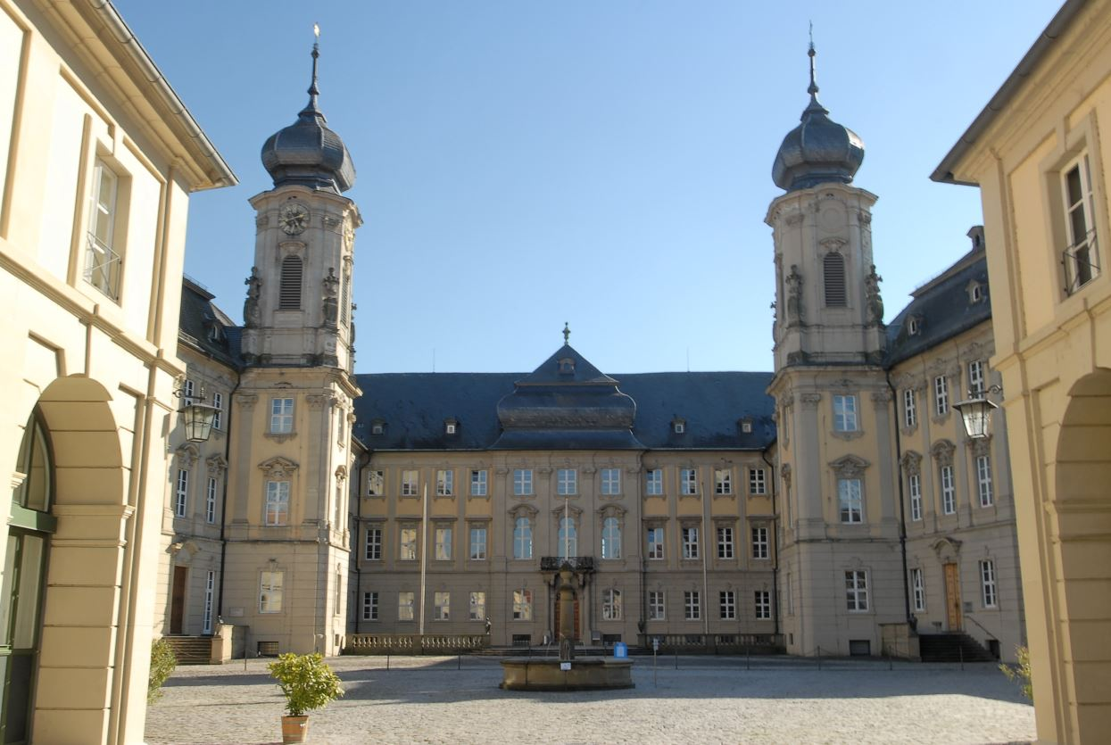 Werneck, Schloss, Schlosshof / castle / Architect Balthasar Neumann